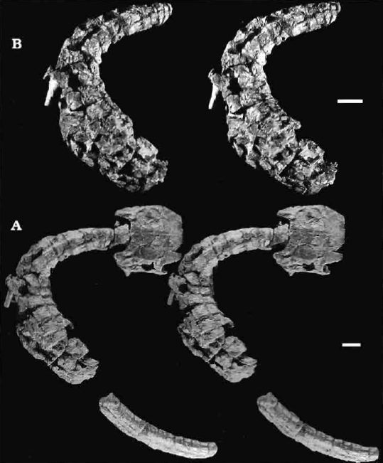 Gobiosuchus kielanae Osm61ska7. 912 ftom the DjadokhtaF ormationo f Bayn Dzak. Largely completes pecimen( ZPAL}/g R-IV68) encasedin armour,d orsalv iew. Fragment of the same specimend, orsalv iew; visible proximal part of left humerus.